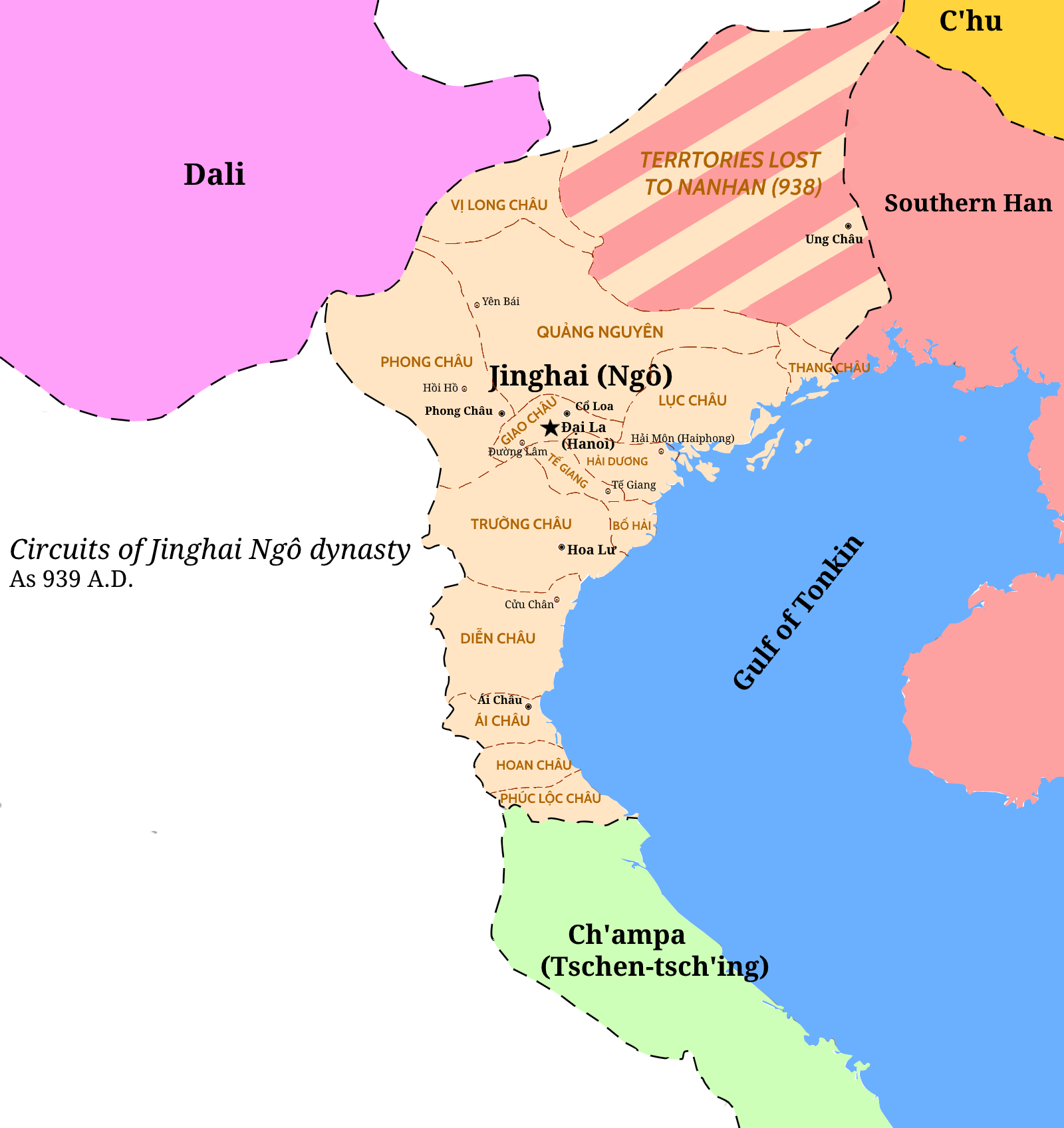 Circuits and cities of Annan, Ngô Dynasty, as of 940.